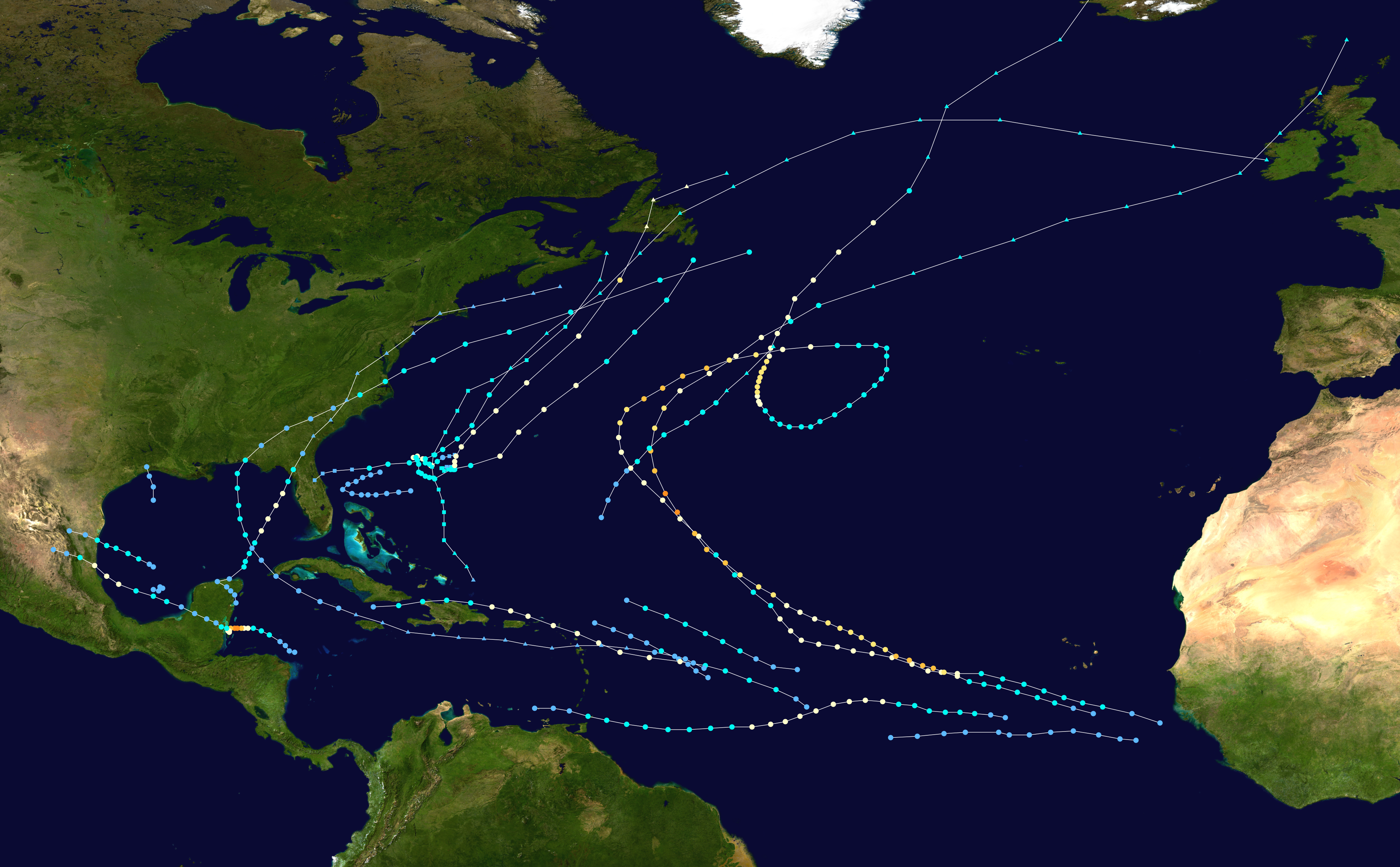 This map shows the tracks of all tropical cyclones in the 2000 Atlantic hurricane season. The points show the location of each storm at 6-hour intervals. The colour represents the storm's maximum sustained wind speeds as classified in the Saffir-Simpson Hurricane Scale (see below), and the shape of the data points represent the type of the storm. Saffir–Simpson scale Tropical depression≤38 mph≤62 km/h Category 3111–129 mph178–208 km/h Tropical storm39–73 mph63–118 km/h Category 4130–156 mph209–251 km/h Category 174–95 mph119–153 km/h Category 5≥157 mph≥252 km/h Category 296–110 mph154–177 km/h Unknown Storm type Tropical cyclone Subtropical cyclone Extratropical cyclone / Remnant low / Tropical disturbance / Monsoon depression